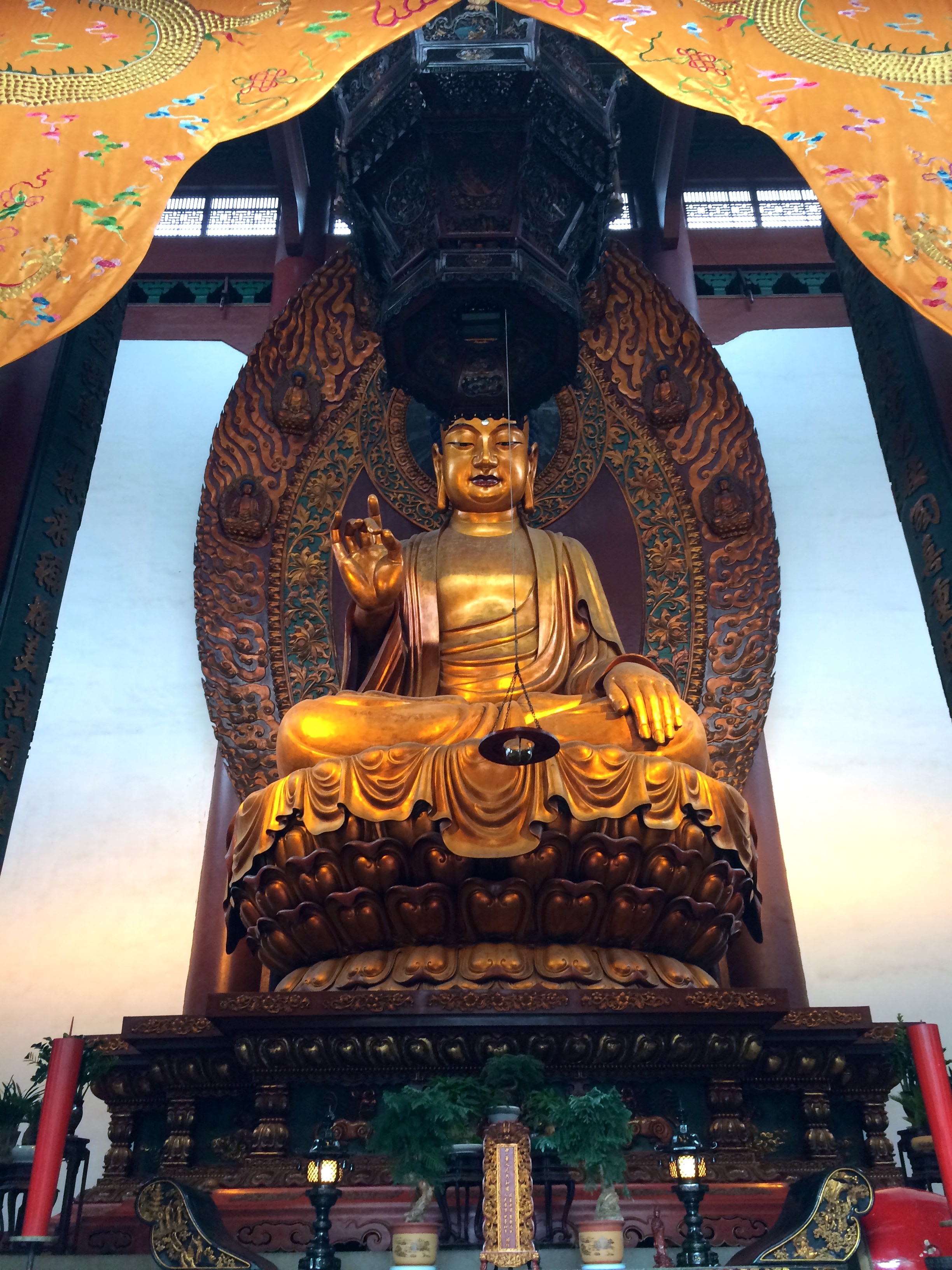 Buddha at the Grand Hall of the Great Sage in Lingyin Temple, Hangzhou, China